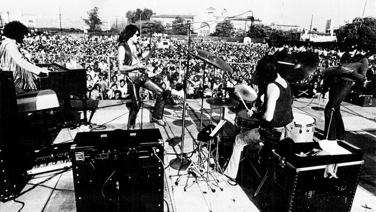 Trade ad for ABC / Dunhill Records featuring Steppenwolf. To better adapt it to his respective Wikipedia article, the ad was cropped and cleaned in a graphics editing program. The original can be viewed at the source below.